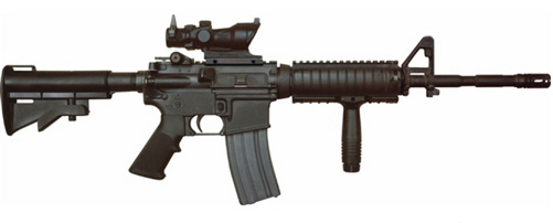 A M4A1 with SOPMOD package, including Rail Interface System and Trijicon 4x ACOG. The barrel length is 14.5 inches.